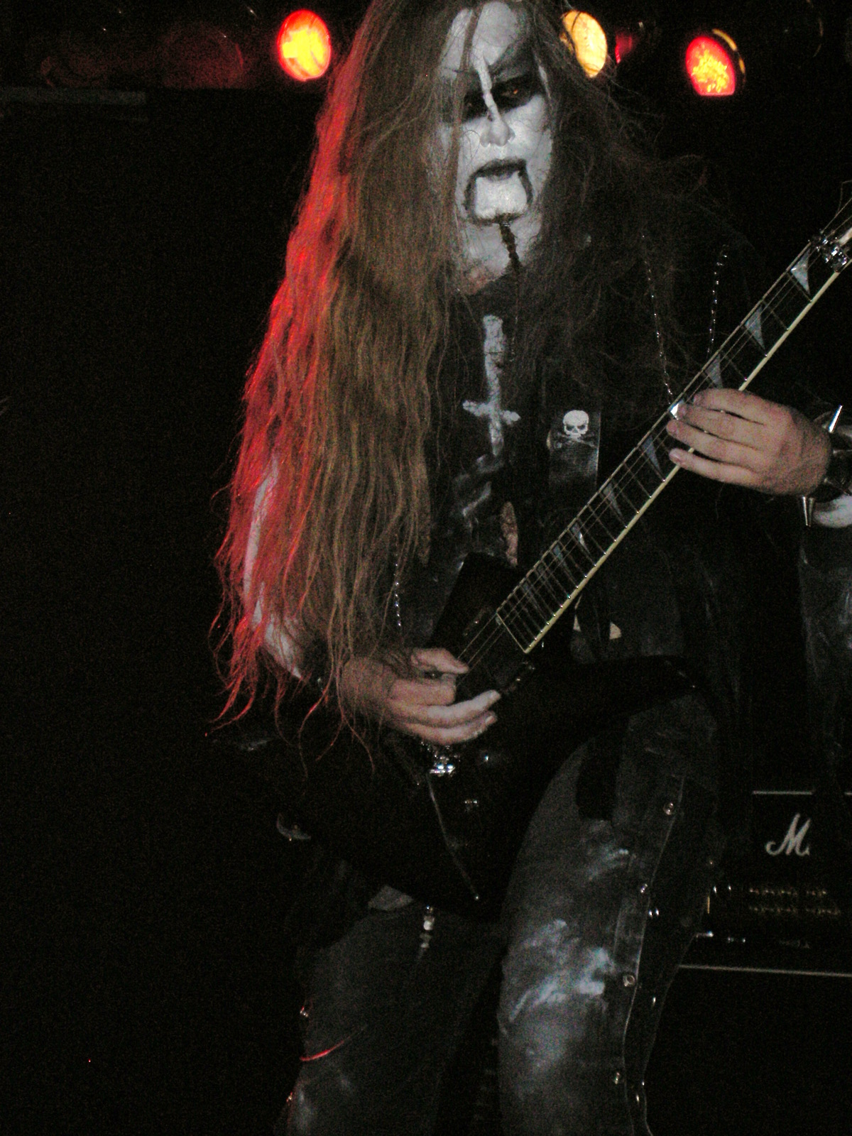 Archaon, guitarrist of 1349.